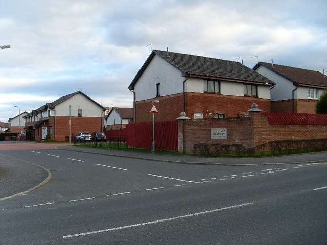 Jane Rae Gardens, Clydebank Housing estate built in 1997 and named after political activist Jane Rae, member of the Independent Labour Party from 1913 and councillor for Clydebank from 1922 to 1928. Jane Rae was sacked from the Singer factory in 1911 for her involvement in a strike, and chaired a meeting for suffragette Emily Pankhurst at Clydebank Town Hall.